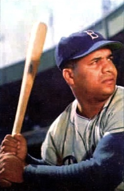 Brooklyn Dodgers catcher and Hall of Famer Roy Campanella.